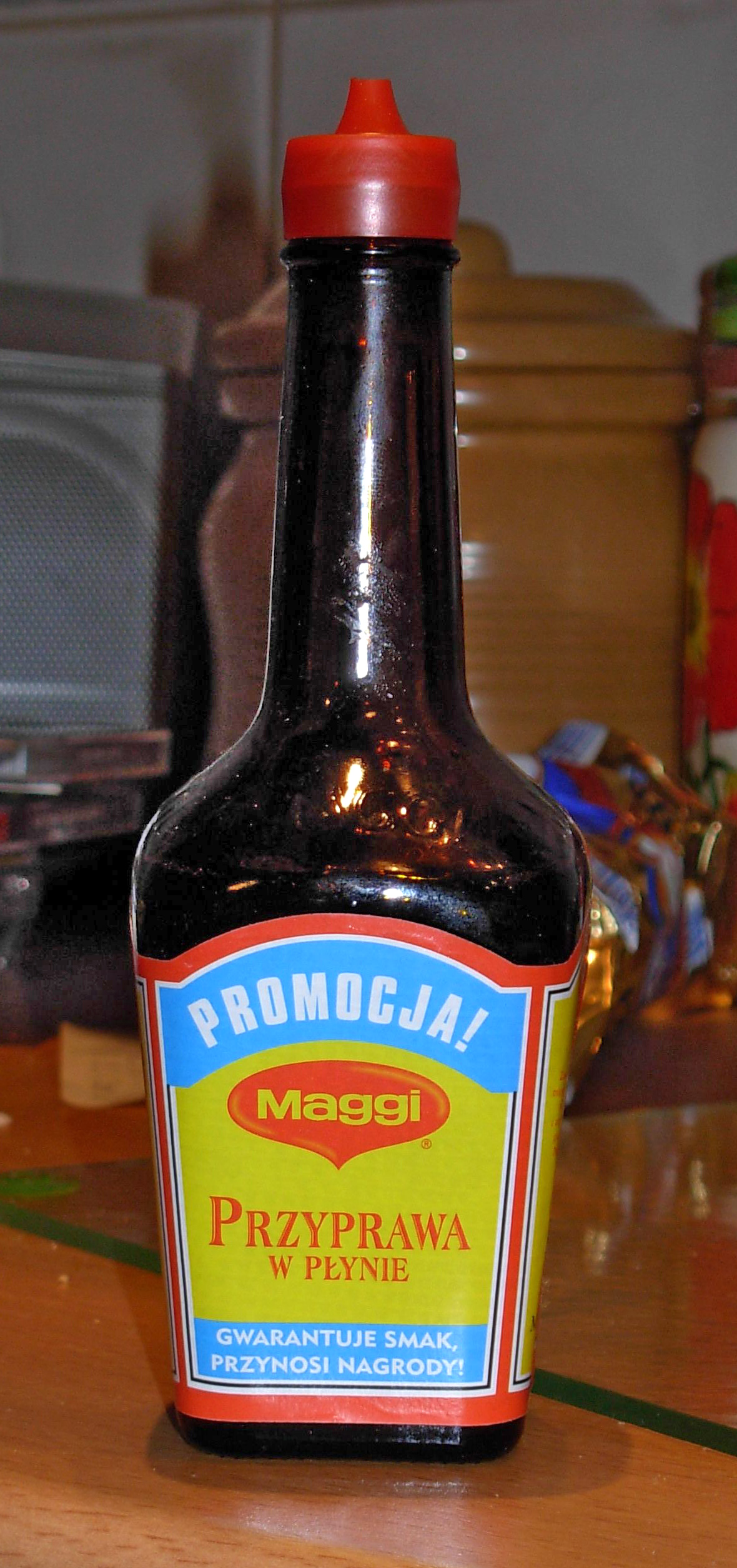 Maggi sauce, Poland. Photo by myself.